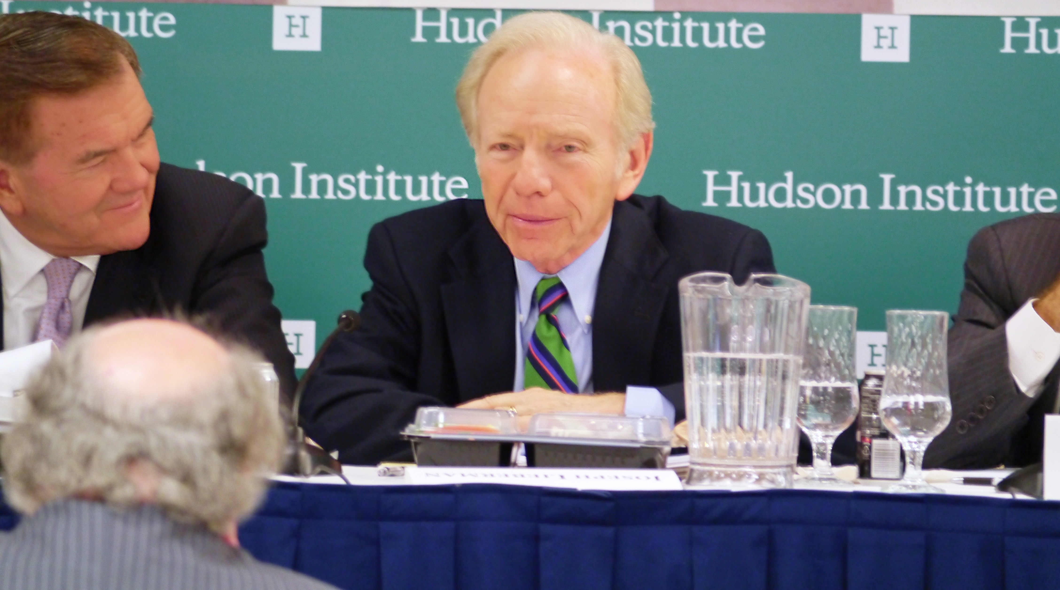 Blue Ribbon Study Panel on Biodefense